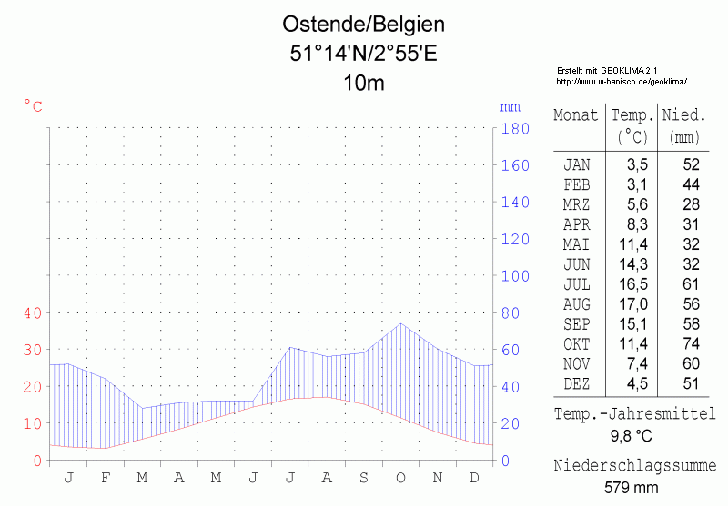 climate chart in the format by Walther and Lieth, metric, °Celsisus and millimeters, made with Geoklima 2.1